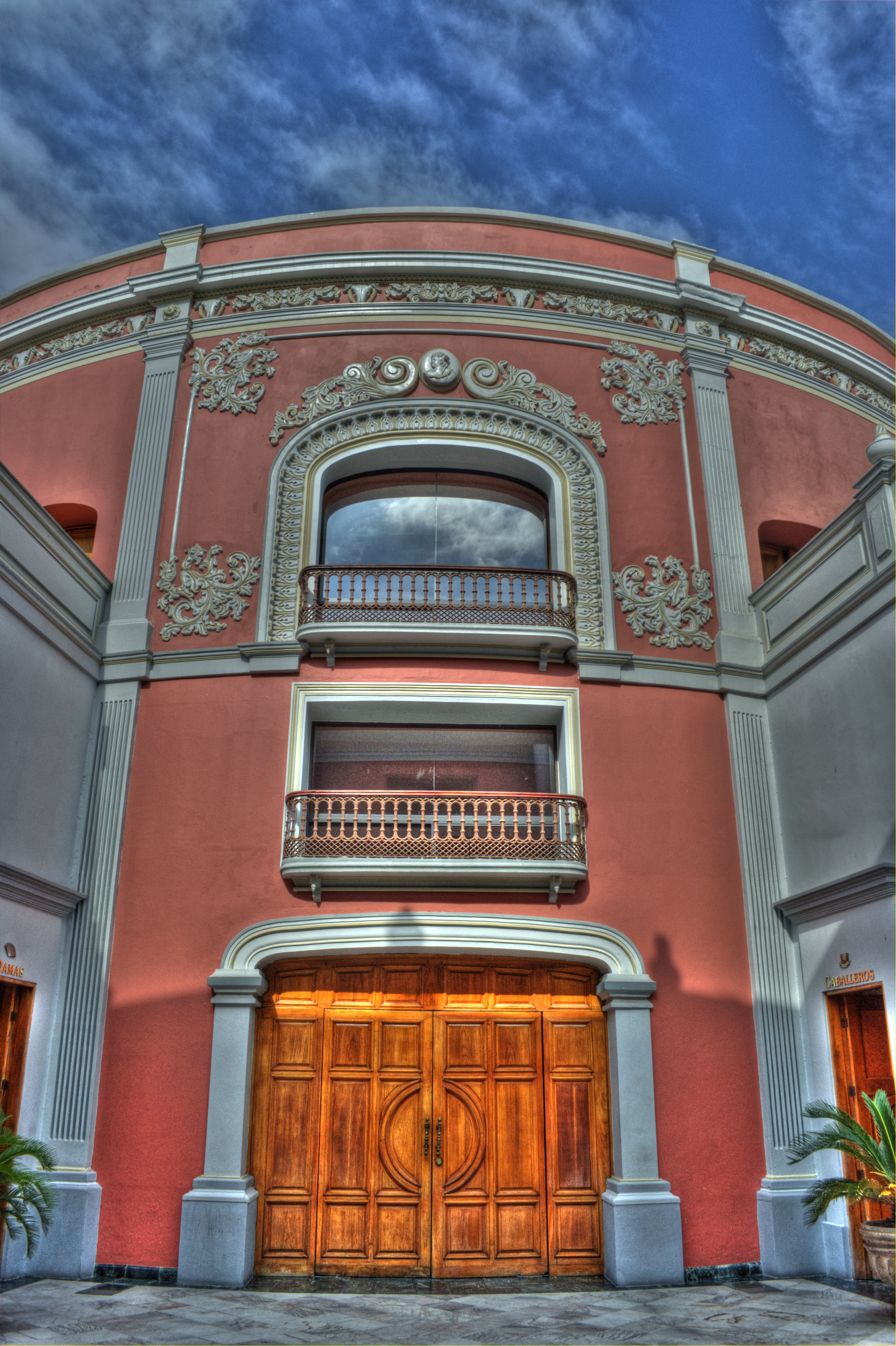 The Angela Peralta Theater in Mazatlan was inaugurated on February 15, 1874 with the name of Teatro Rubio, was officially opened on 6 February in 1881 when it was completely finished as this is the name of its owner, who brought the European continent planes of the work. In the design and construction involving foremen, technicians and craftsmen in the region, who adopted the models of nineteenth-century Romantic Theatres, with horseshoe-shaped rooms in Italian style, responding to the needs of meeting and recreation of the population.